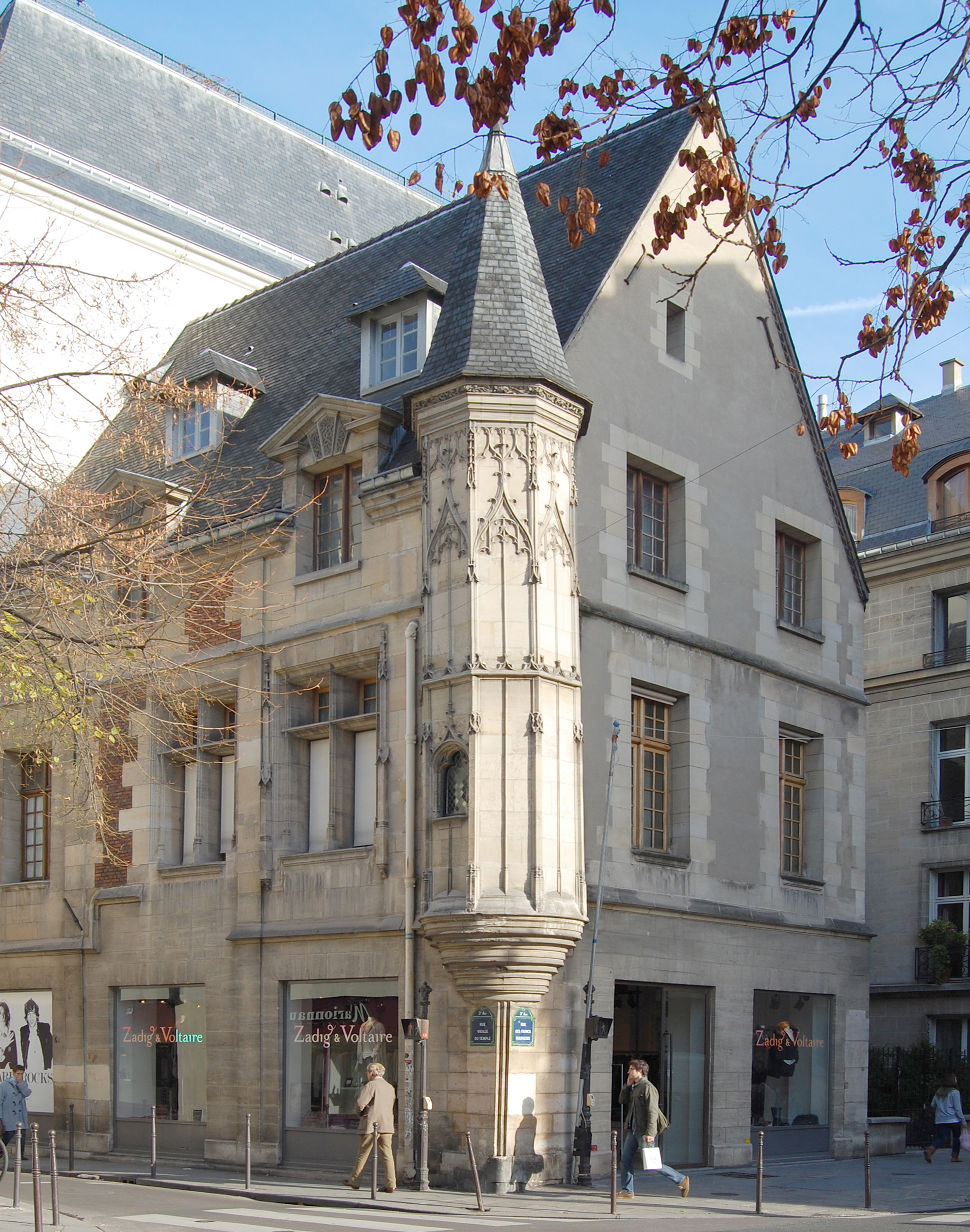 House of Jean Herouet, 54 rue des Francs-Bourgeois, Le Marais, Paris, France